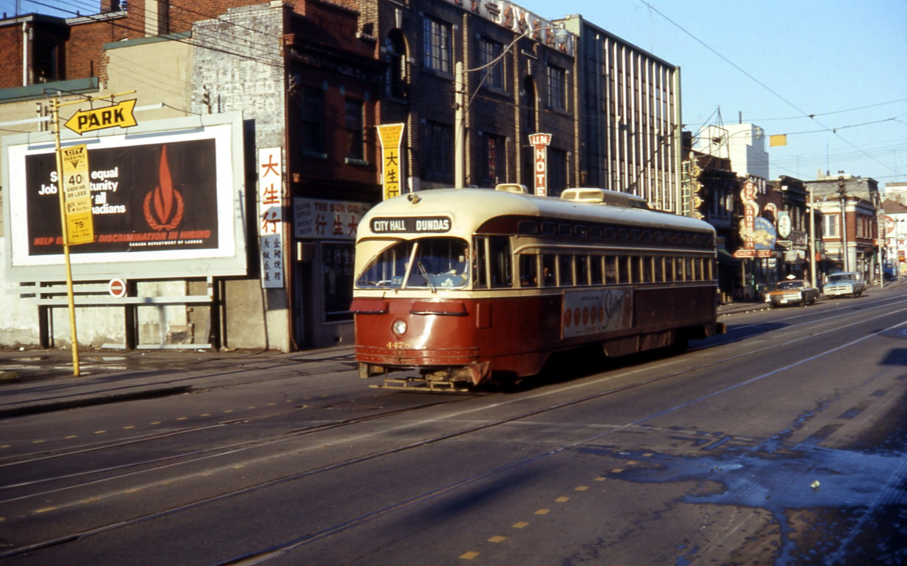 TTC 4478 Dundas Street, west of Bay Street, Toronto, Ontario, Canada.